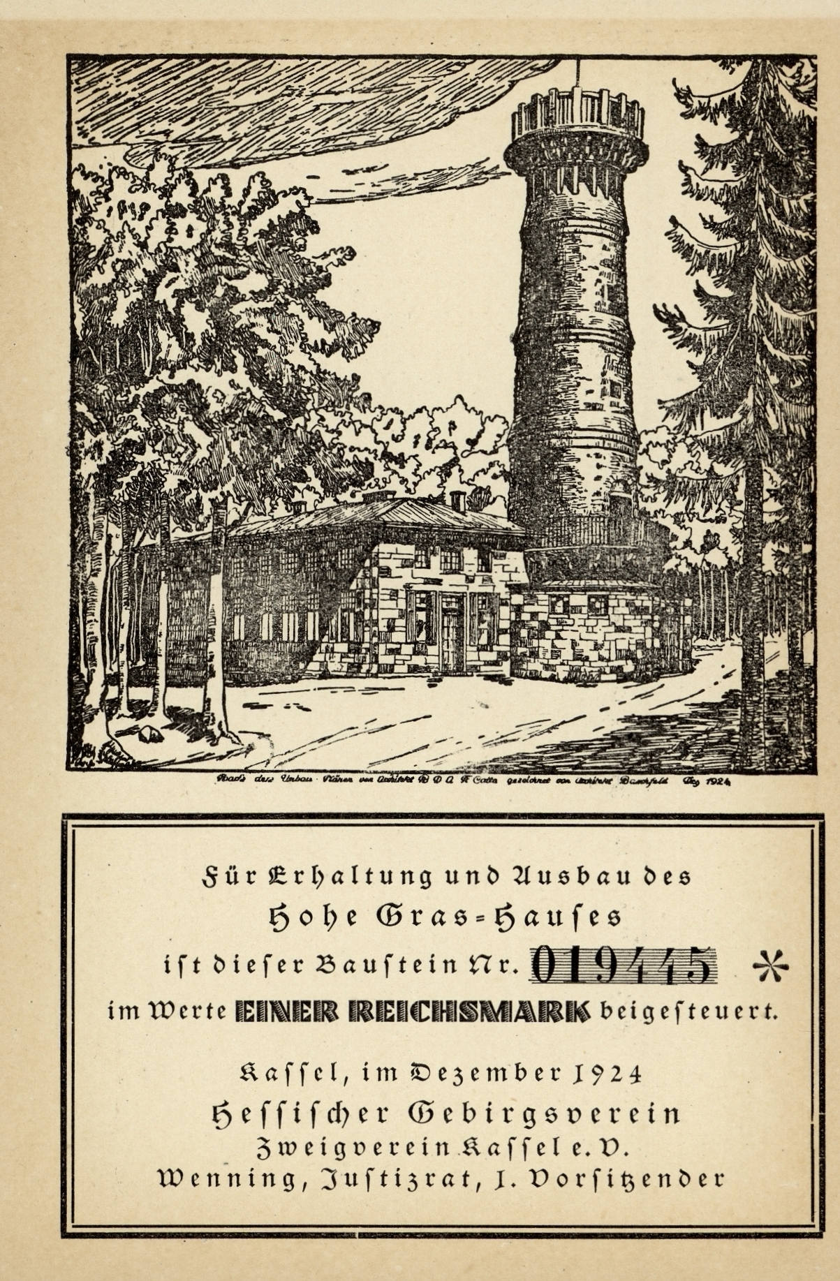 Banking basis module of the Hessische Gebirgsverein for the maintenance and upgrading of the "Hohe Gras" house, issued December 1924